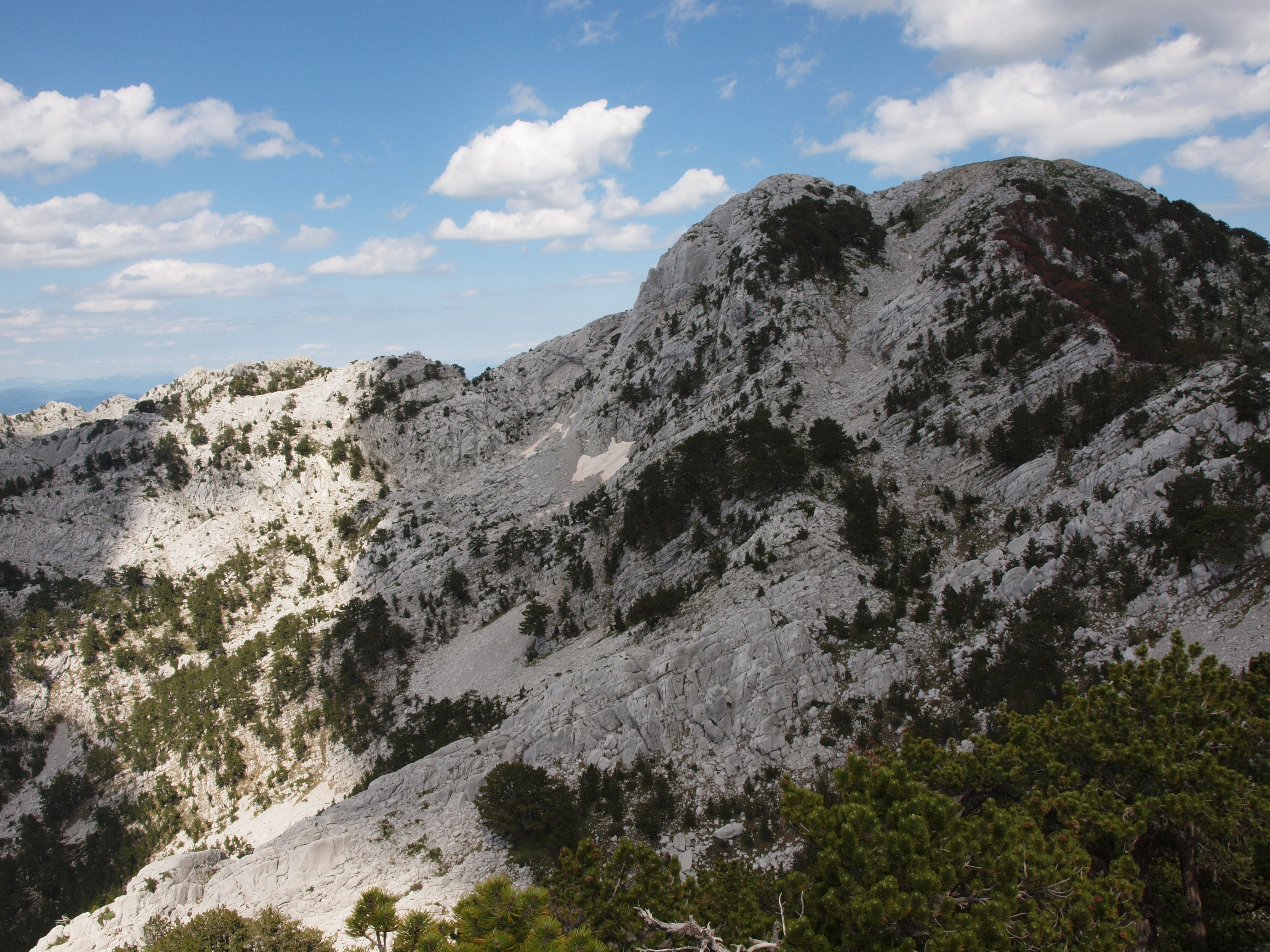 North-Western cirque at Zubacki kabao, Orjen Montenegro